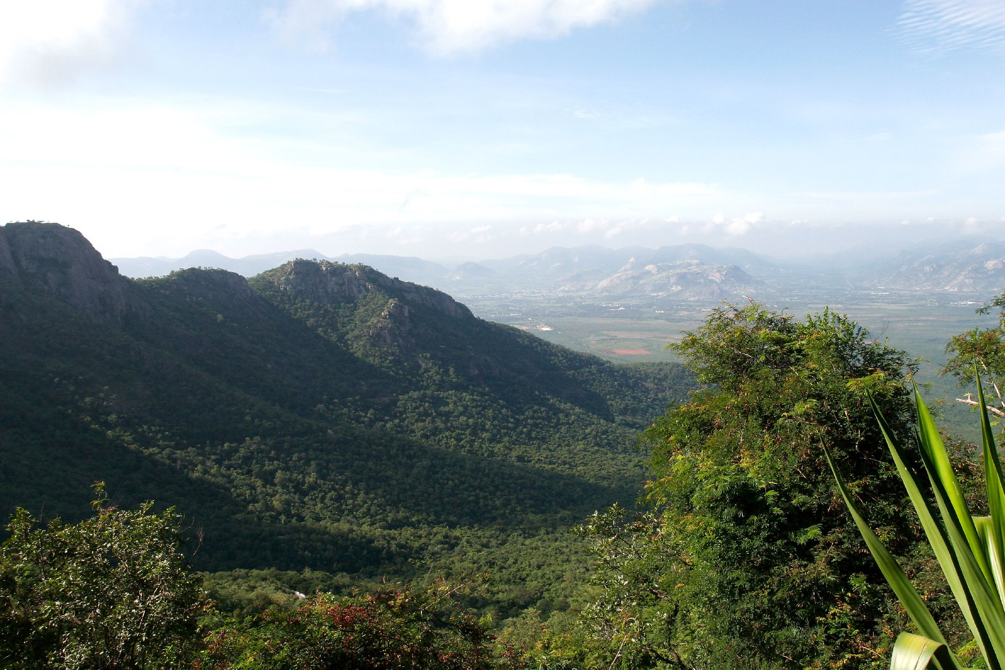 The view of the place around Tirupati from Tirumala hills